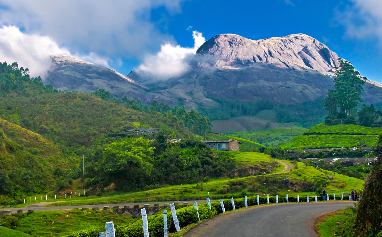 Taken from Munnar , Kerala One of the most popular hill stations in India, Munnar (Kerala) is situated at the confluence of three mountain streams - Mudrapuzha, Nallathanni and Kundala. Located at 1600 M above sea level, this was once the summer resort of the erstwhile British Government in South India. Sprawling tea plantations, picture book towns, winding lanes, trekking and holiday facilities make Munnar a unique experience. Munnar is essentially a tea town.